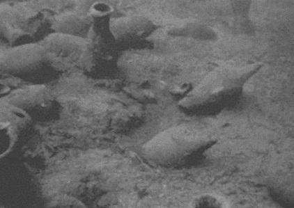 Elba wreck